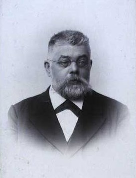 Søren Sørensen (1848-1902), Danish orientalist